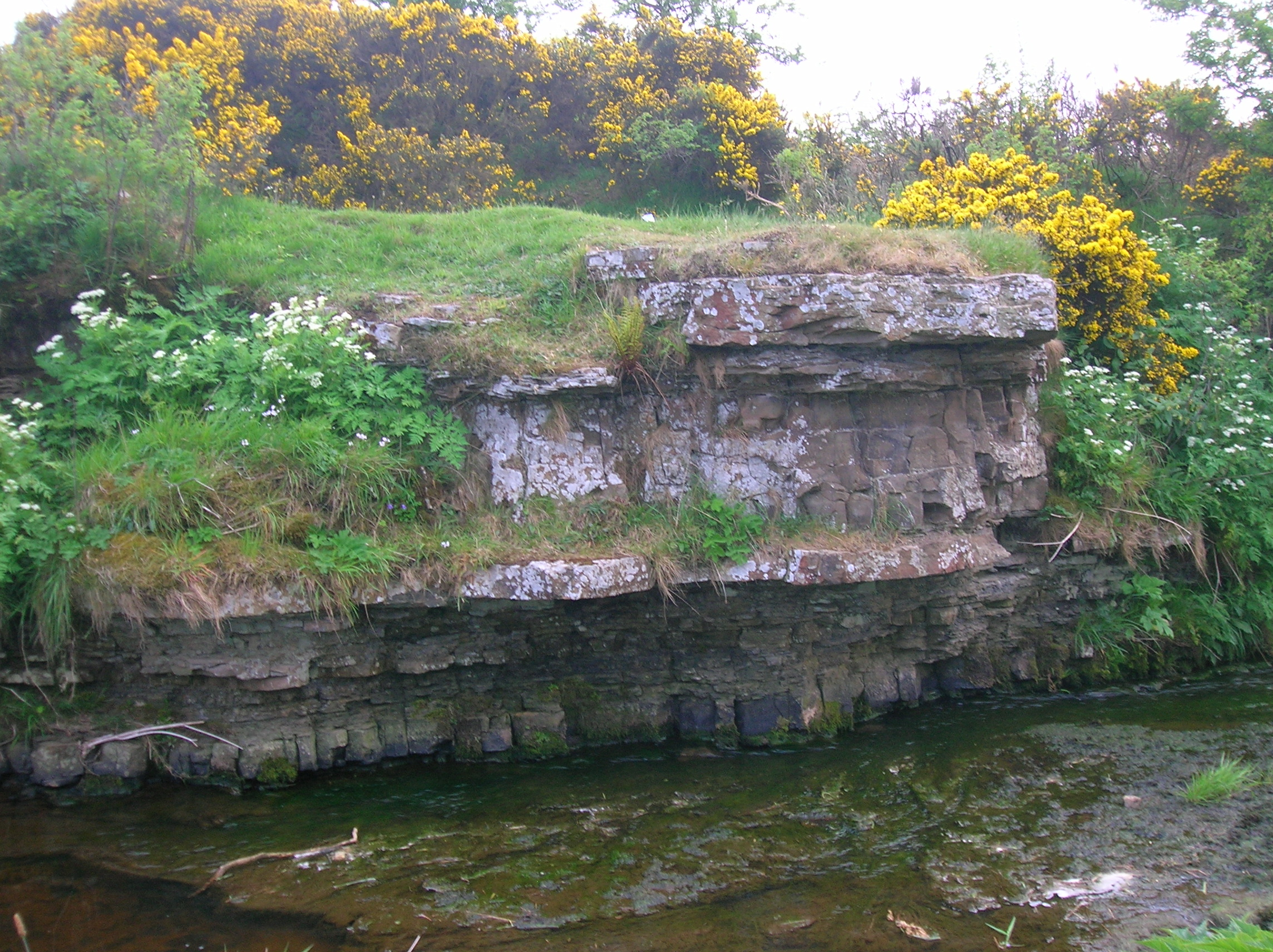 A 'pulpit' on the Corsehill Burn, Stewarton, Scotland